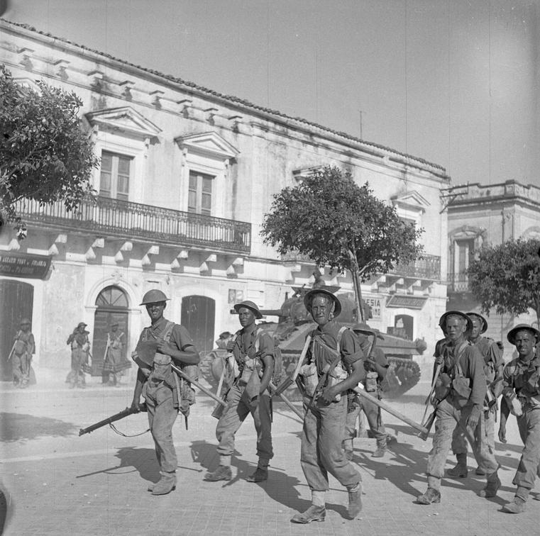 British troops advance through Pachino during the Allied invasion of Sicily.